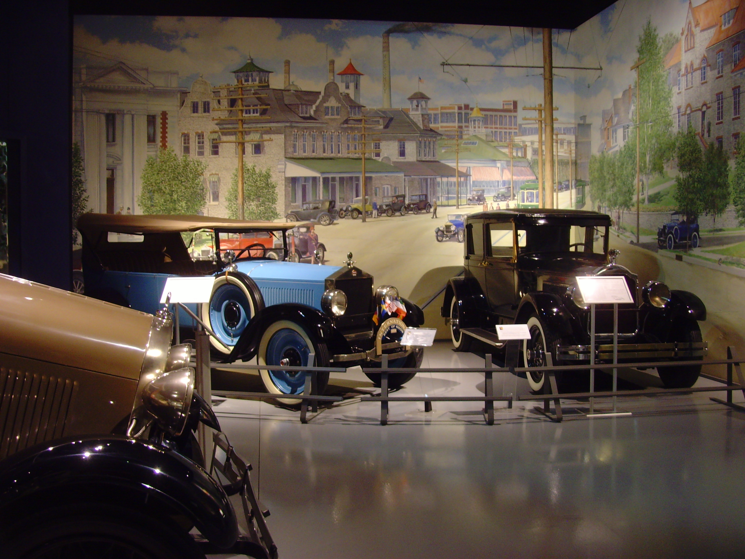 0141 Hershey - Antique Automobile Club of America Museum; 1924 Moon Model 6-50 Metropolitan Touring (1925 model, blue), and 1926 Packard Six model 333 Club Sedan body style #265 (dark)